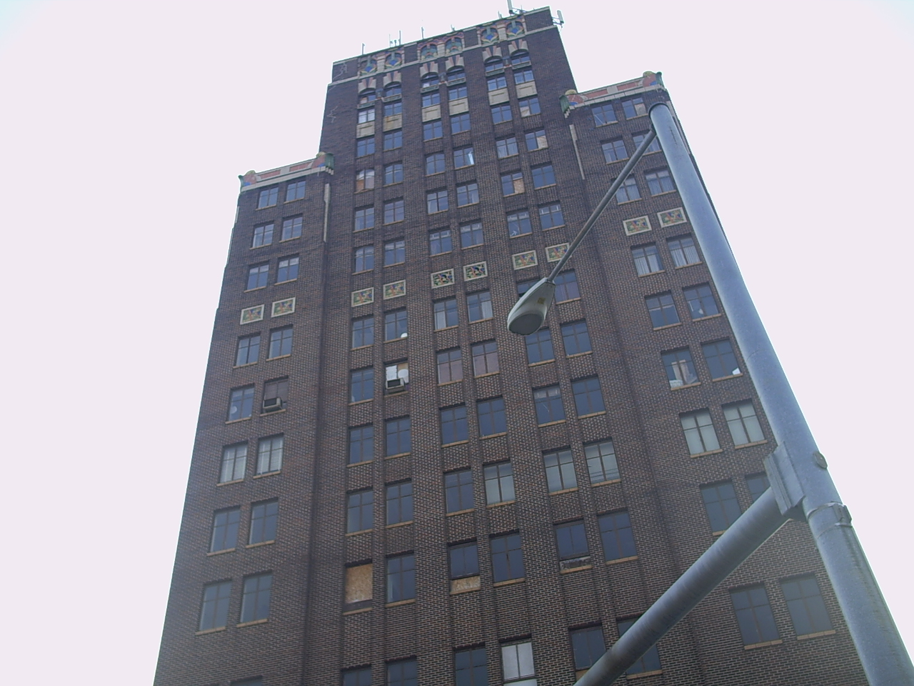 Historic Threefoot Building looking straight up